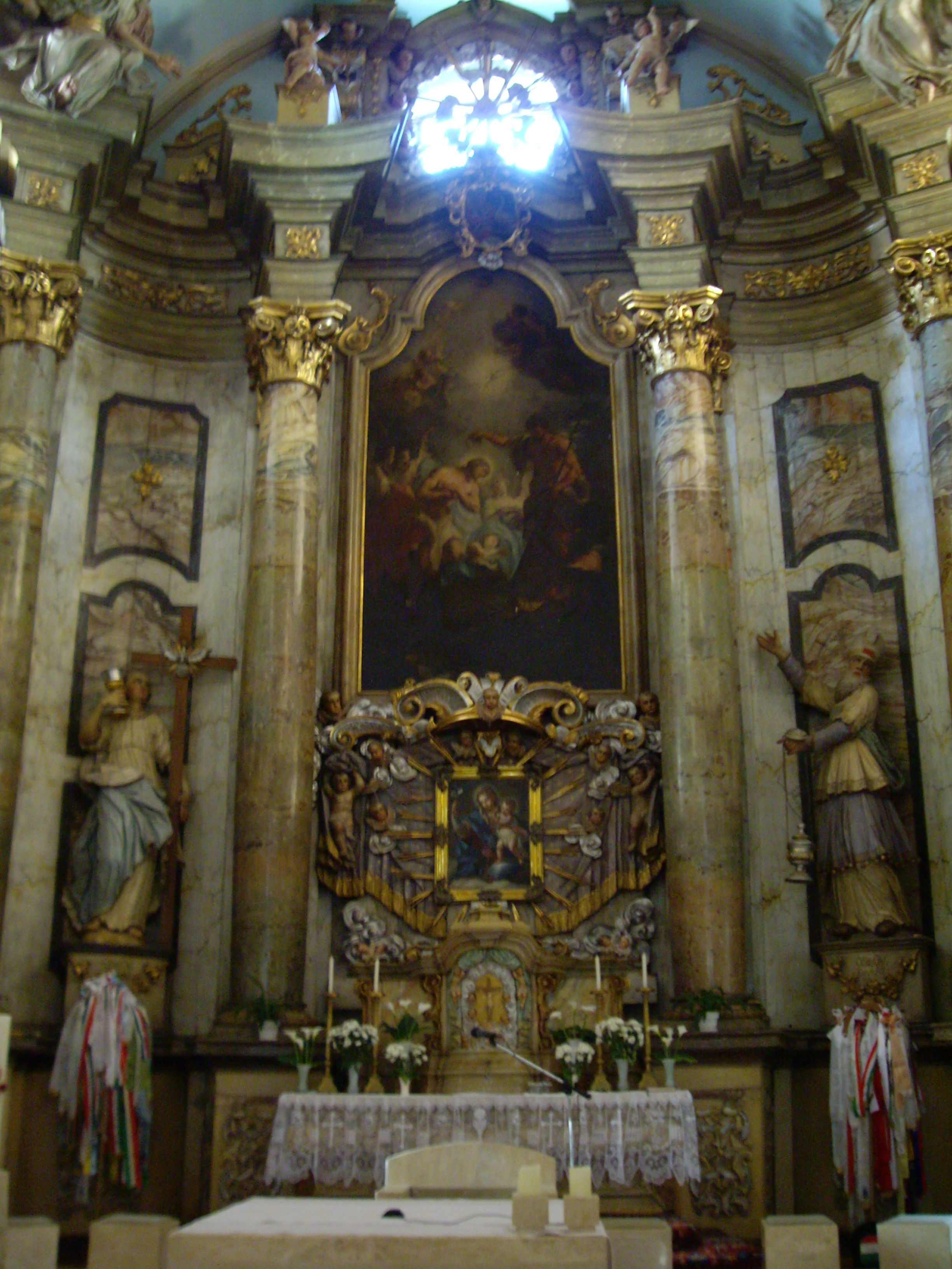 Altar of the John the Baptist parish church